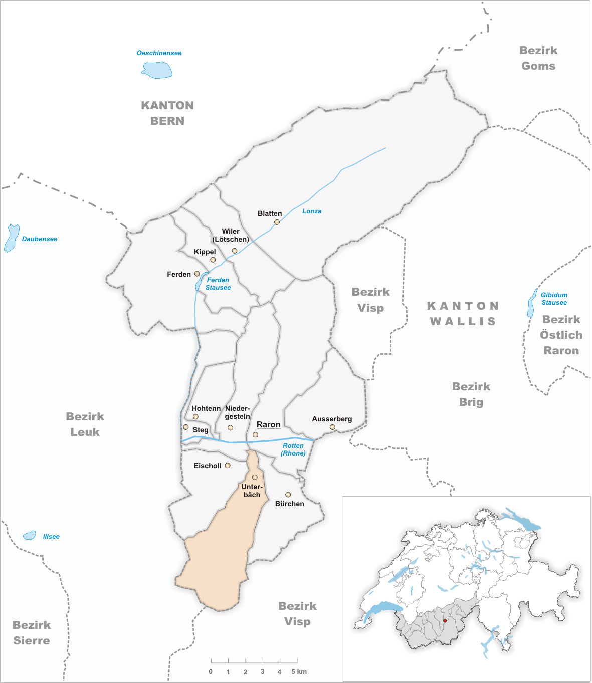 Municipality Unterbäch